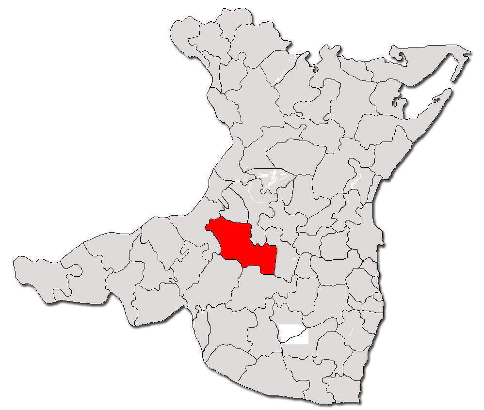 Countour map of Pestera commune